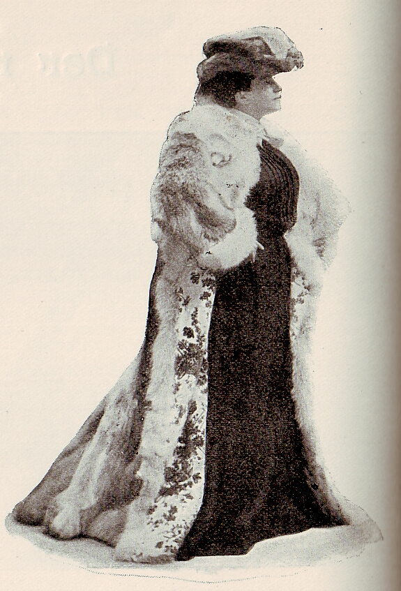 Kit(t) fox fur coat